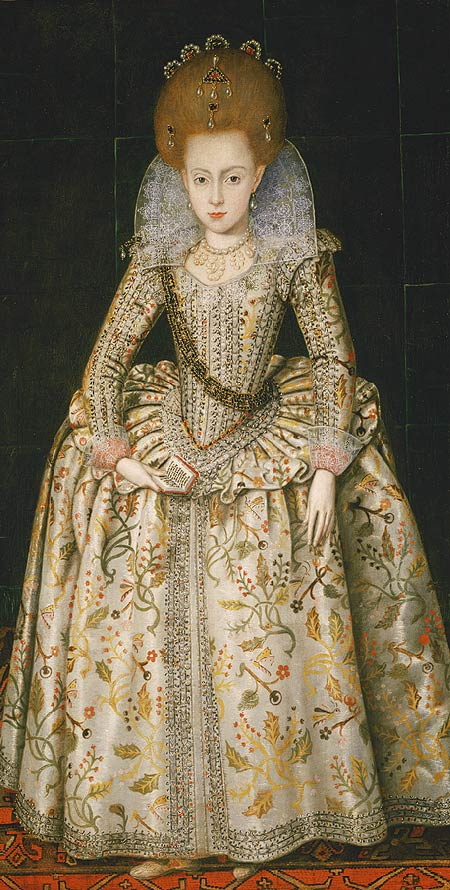 Elizabeth Stuart, eldest daughter of James I/VI of England and Scotland. She married Frederick V, Elector Palatine, and briefly ruled as queen of Bohemia. Nicknamed the Winter Queen, because of the short tenure she and her husband had in Bohemia.